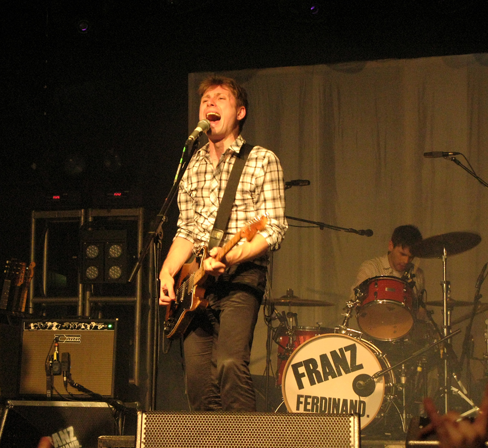 franz ferdinand, heaven